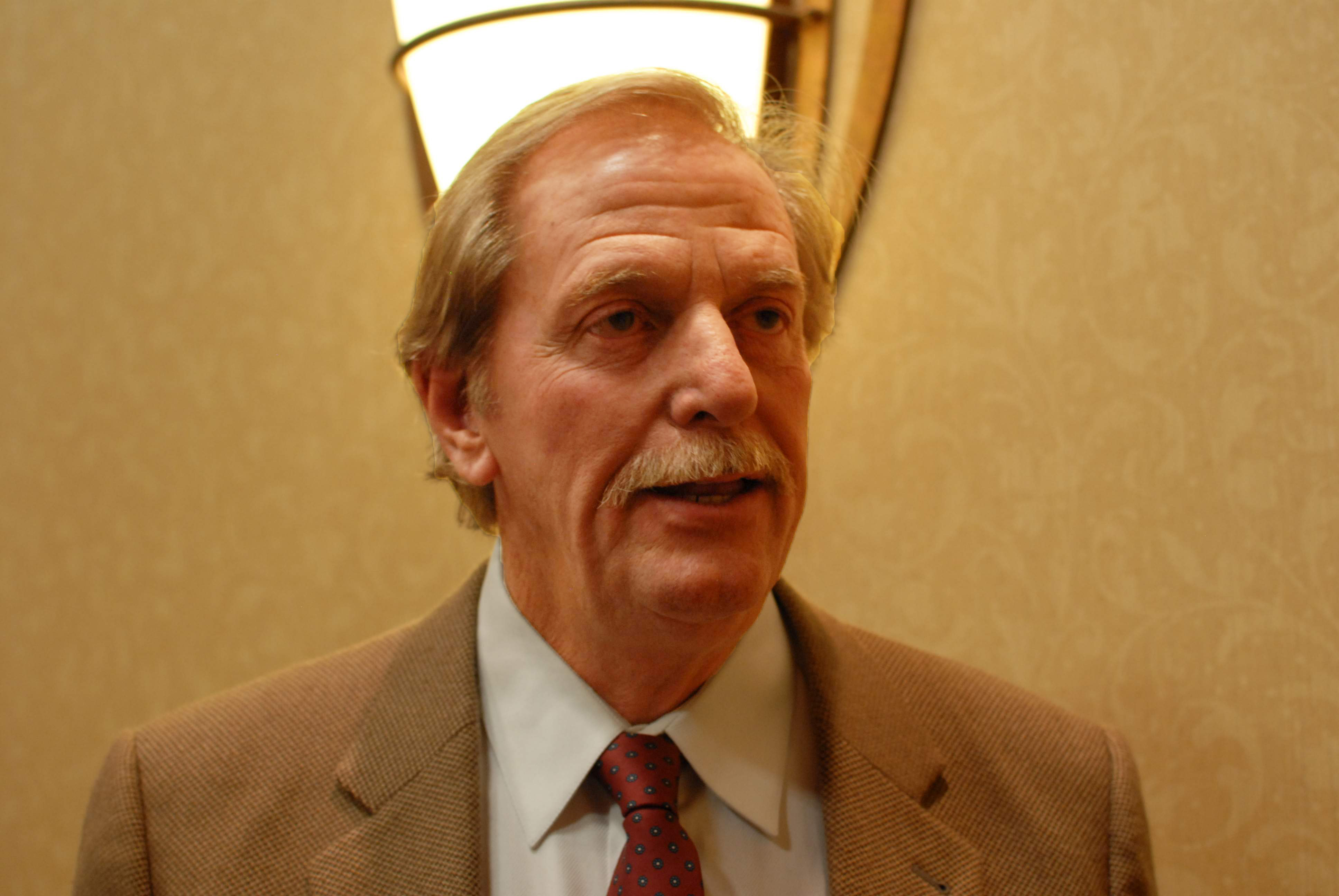 Former NASCAR owner Robert Yates (NASCAR) at a 2010 National Motorsports Press Association event. Photos by Ted Van Pelt. Licensed Creative Commons